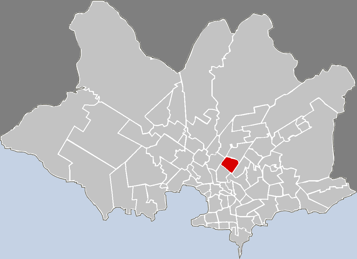 Map highlighting the given barrio in Montevideo.